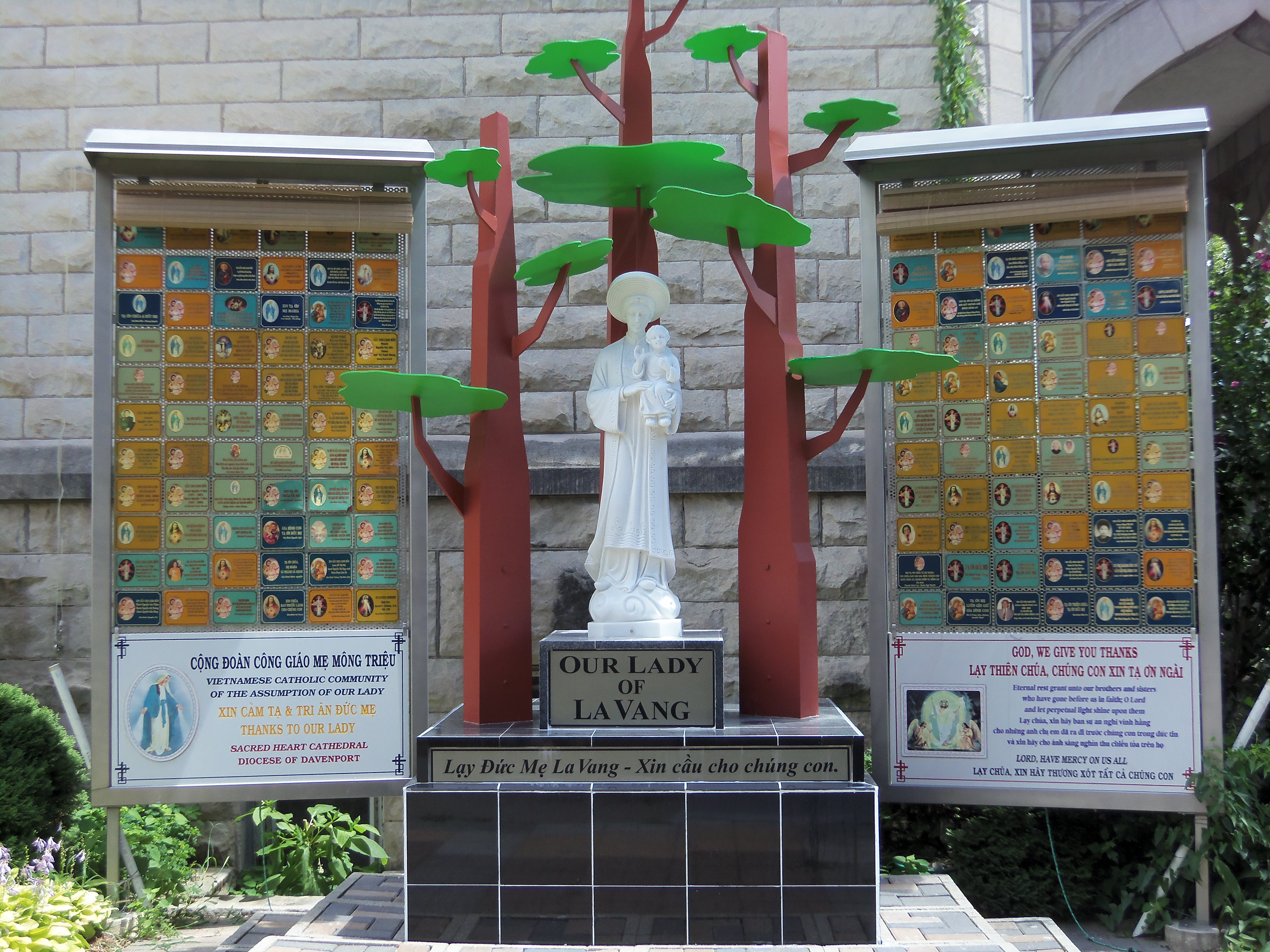 Statue of Our Lady of La Vang at Sacred Heart Cathedral in Davenport, Iowa.